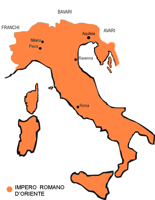 Bizantine prefecture of Italy